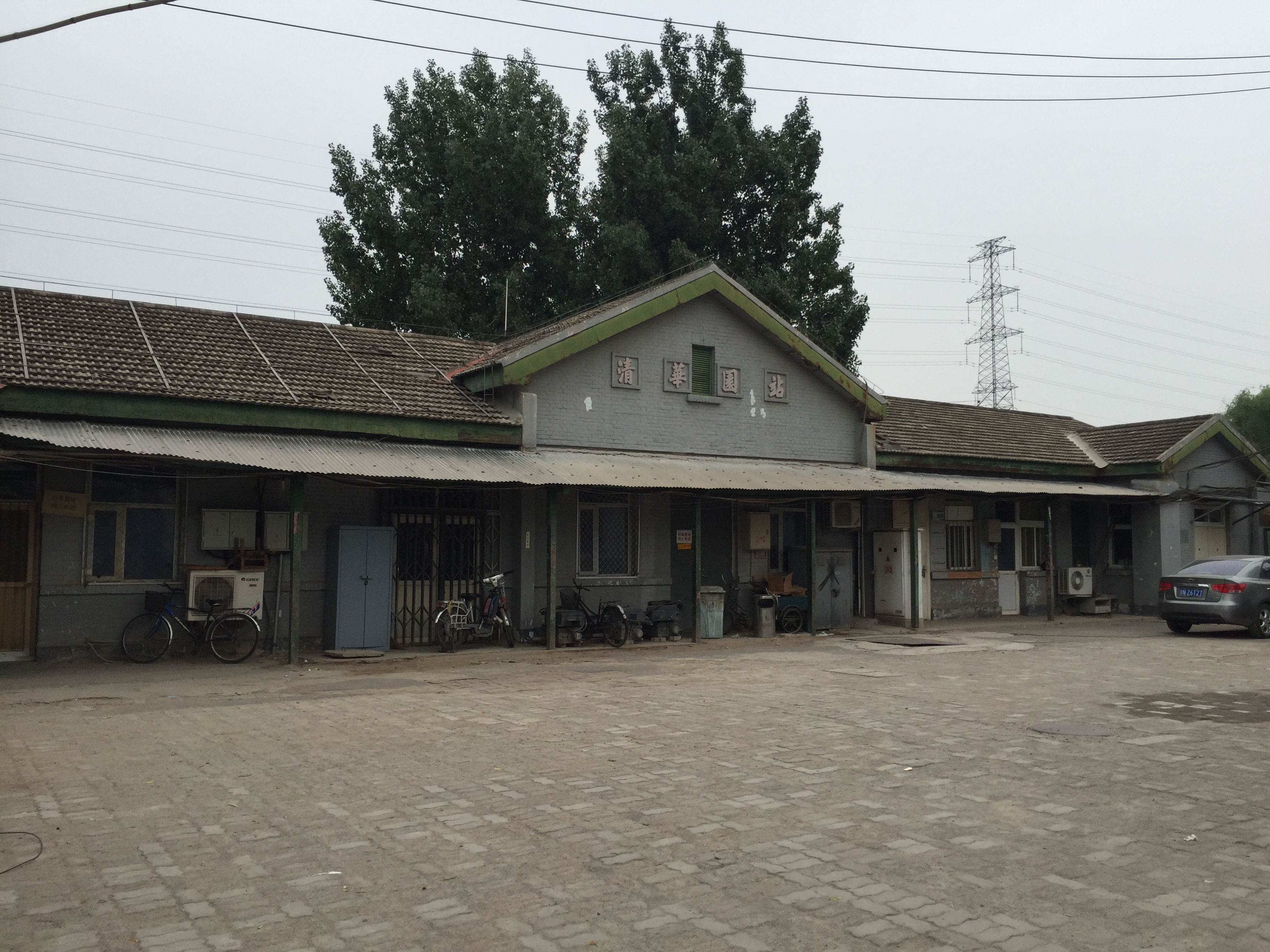 Administration offices now...